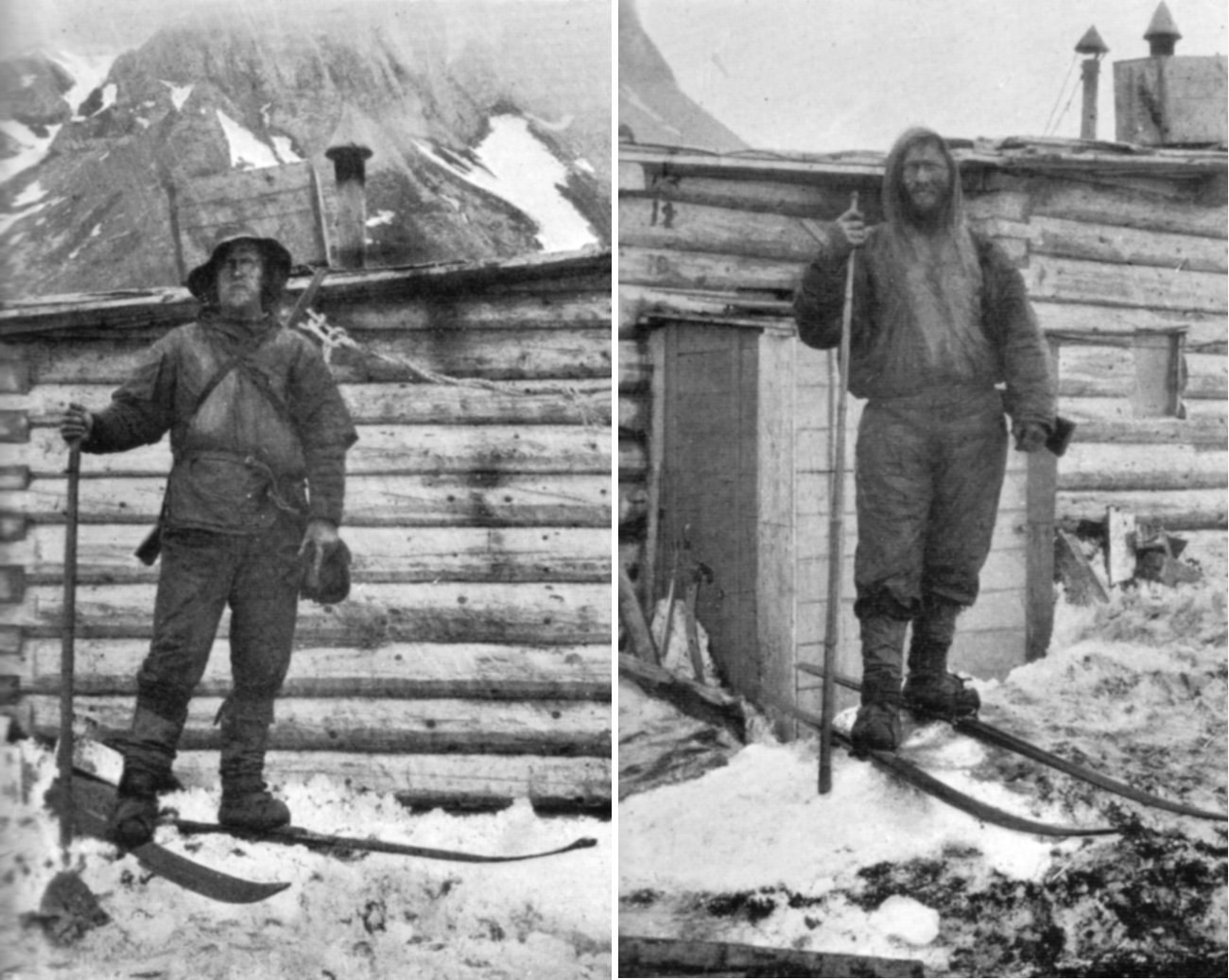 Fridtjof Nansen (left) and Hjalmar Johansen after their arrival at Jackson's camp - Aug 1896